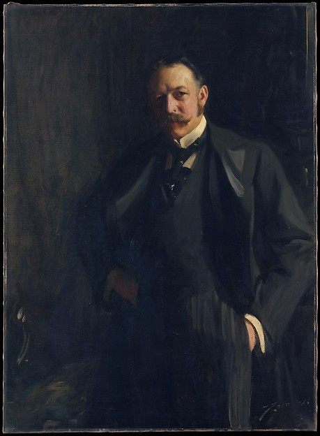 Portrait of Edward Rathbone Bacon by Anders Zorn. Courtesy of the Metropolitan Museum.